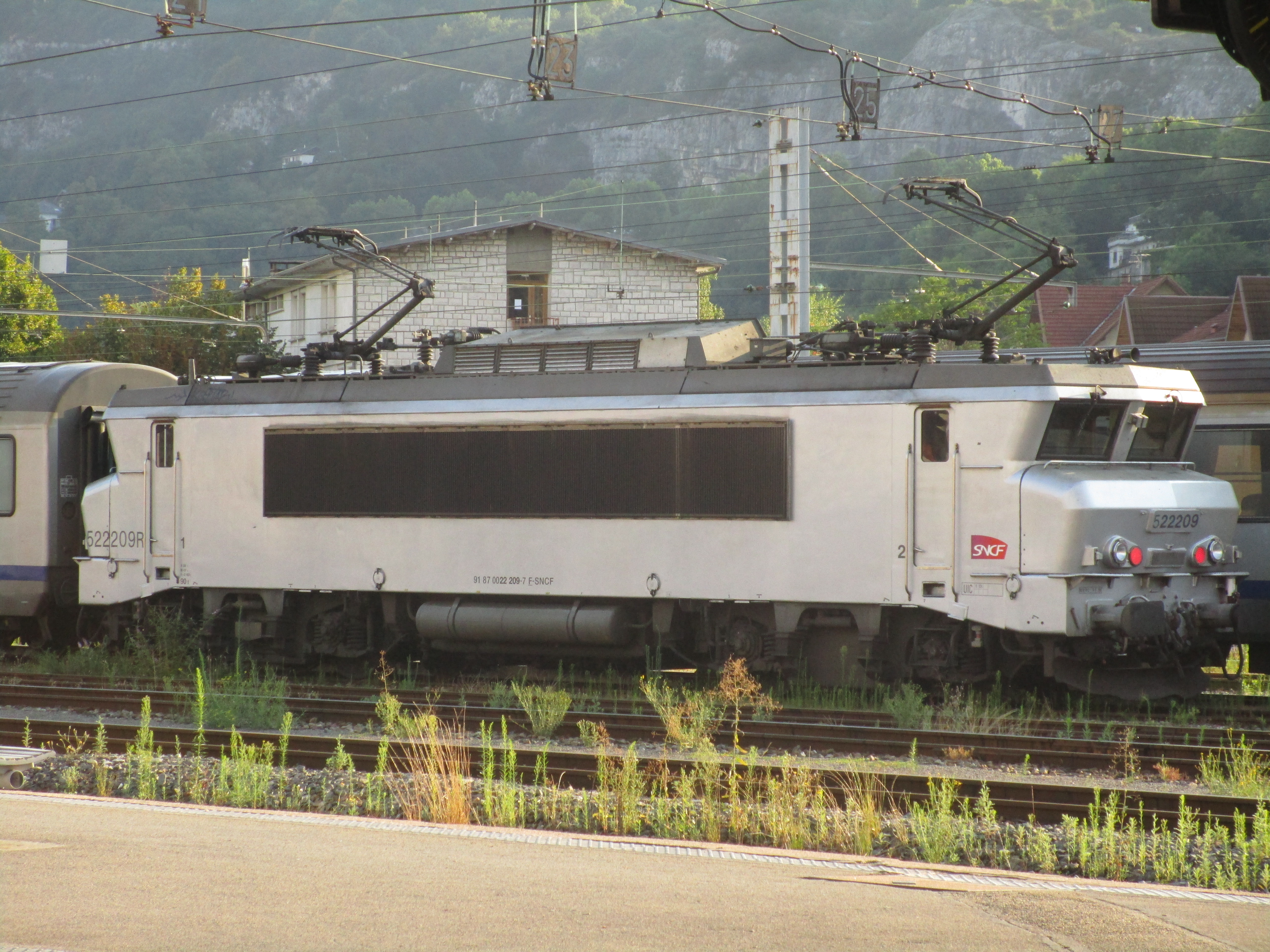 The locomotive BB 22209R (in activity since June 1977) in Chambéry-Challes-les-Eaux station (Savoie, France) on July 22, 2017.